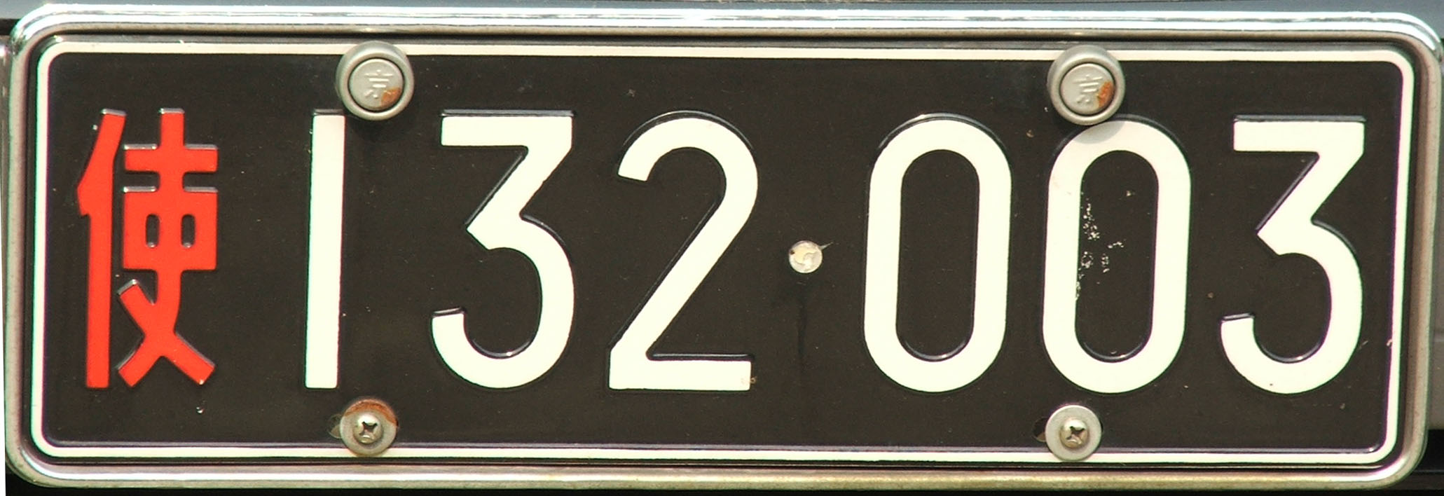 使 diplomatic license plate from the People's Republic of China